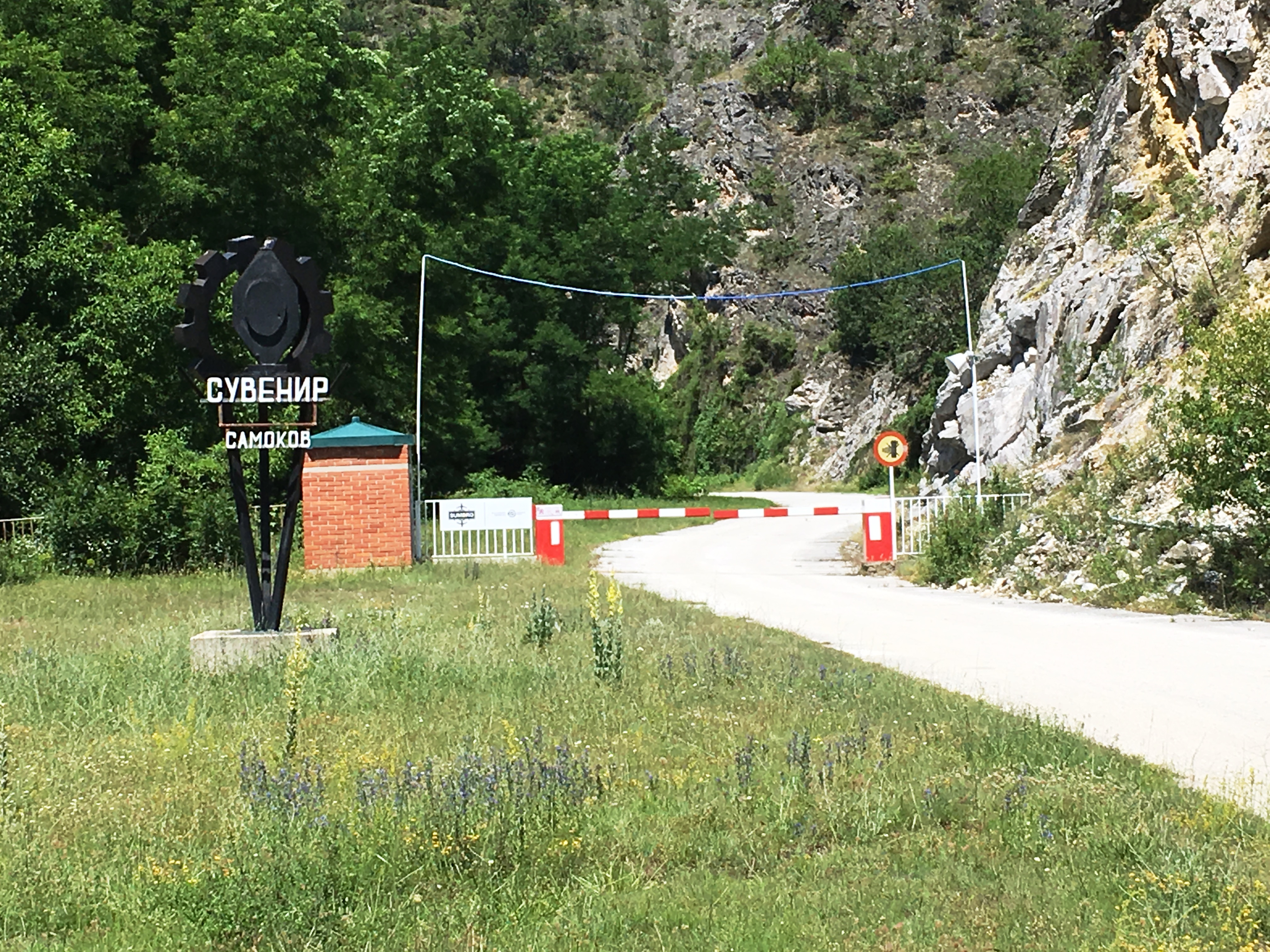 The entrance of the factory Suvenir near the village of Samokov